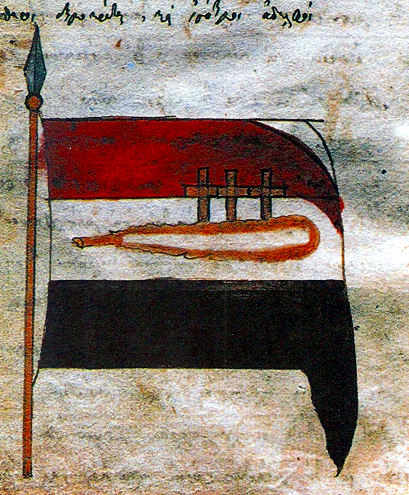 The Flag of Greece as designed by Rigas Feraios in his 1797 manuscript.